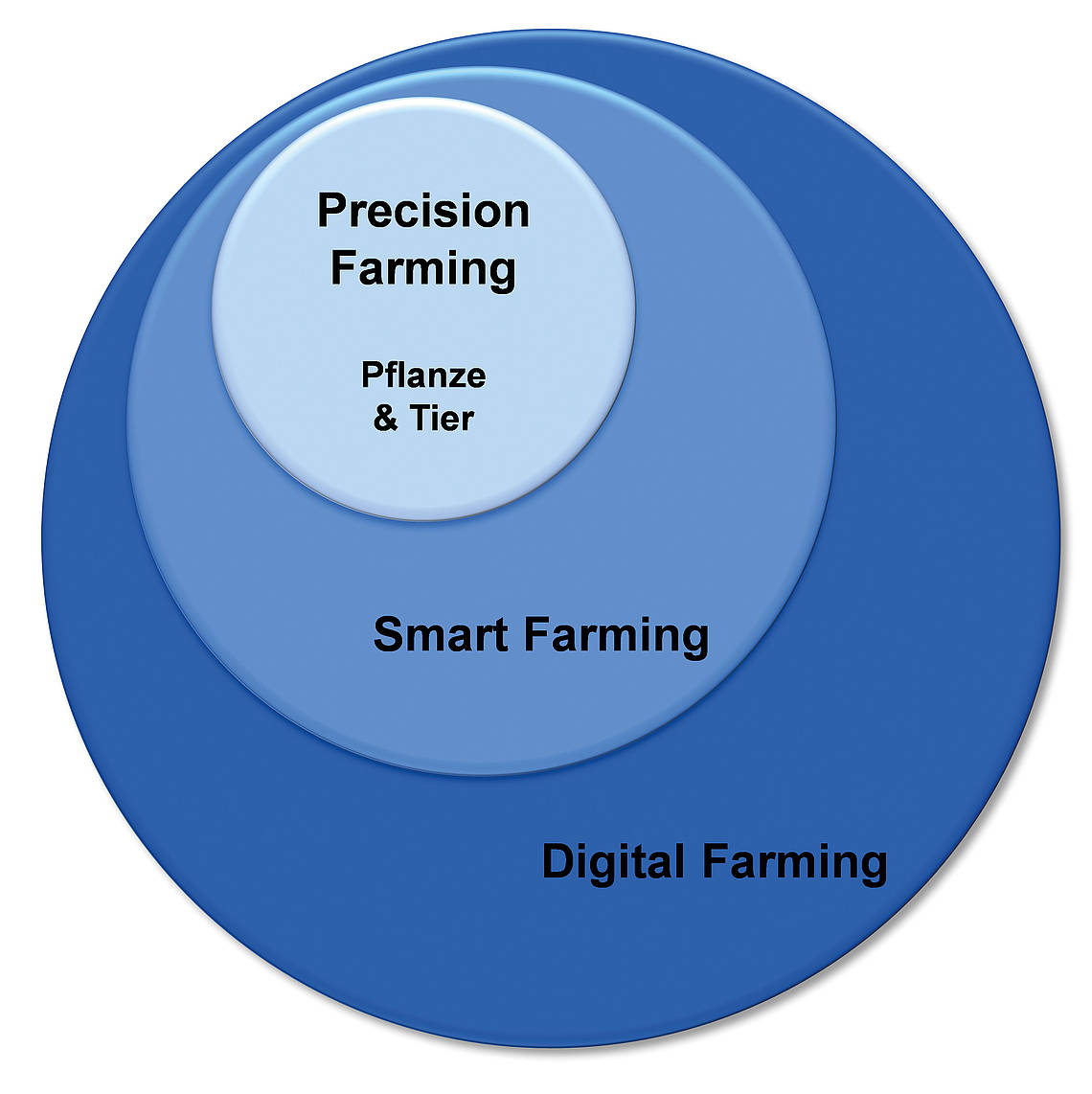 Precision Farmig / Precision Livestock Farming as a subset of Smart Farming. Digital Farming as integrating for all previous systems.